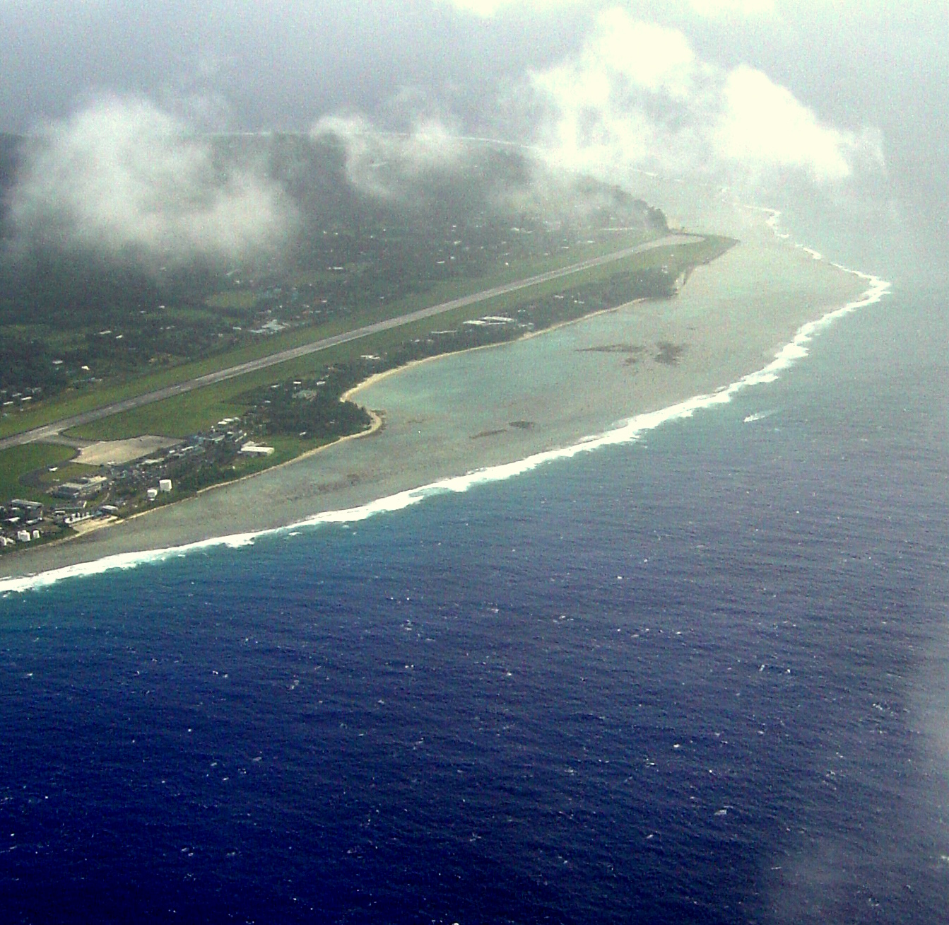 The runway of Rarotonga International Airport from the air